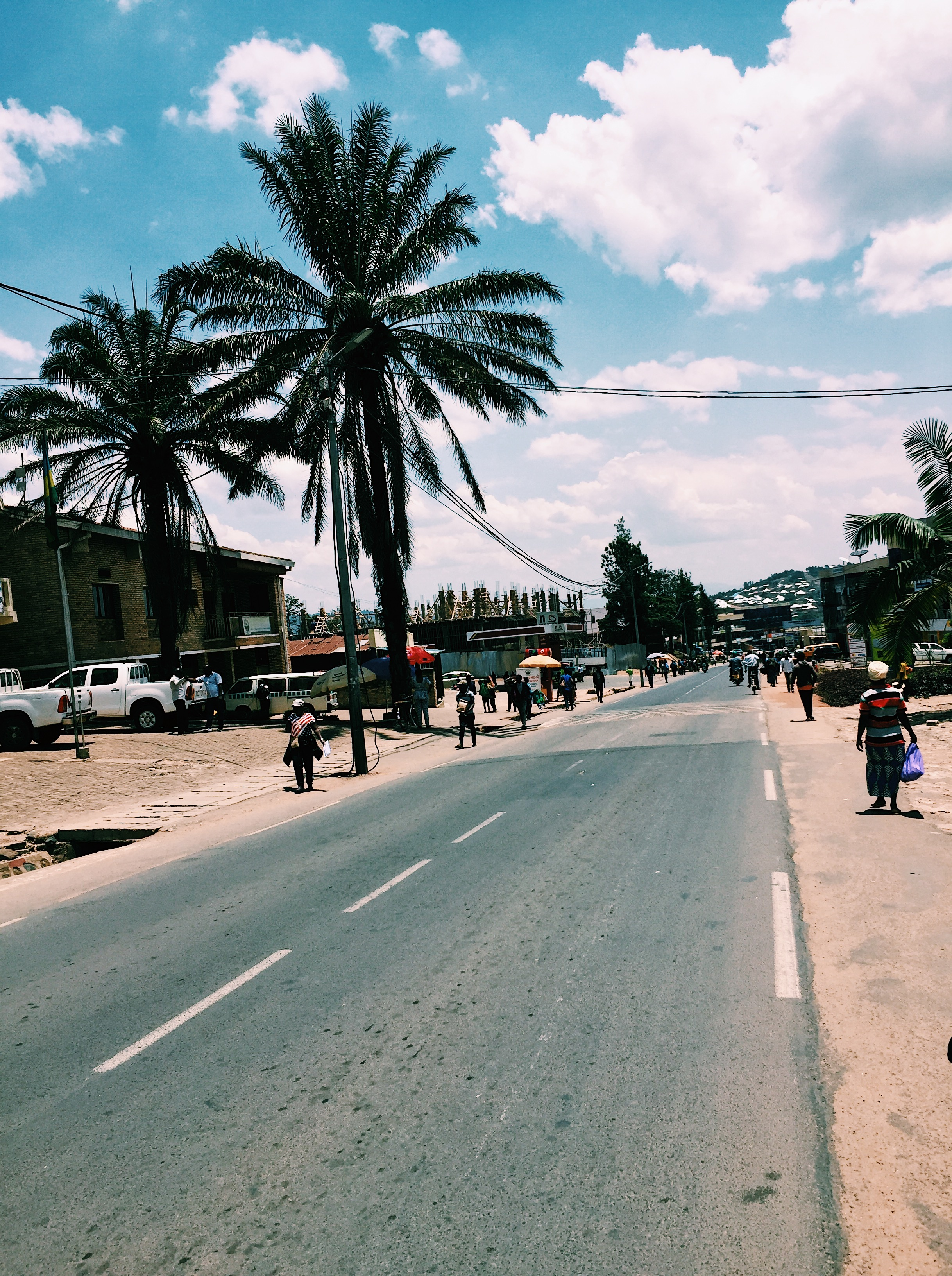 This picture was taken in the second city of Rwanda, Muhanga. It represents the commitment of the Rwandan citizens to build their country. This is an image with the theme "Play" from: Rwanda